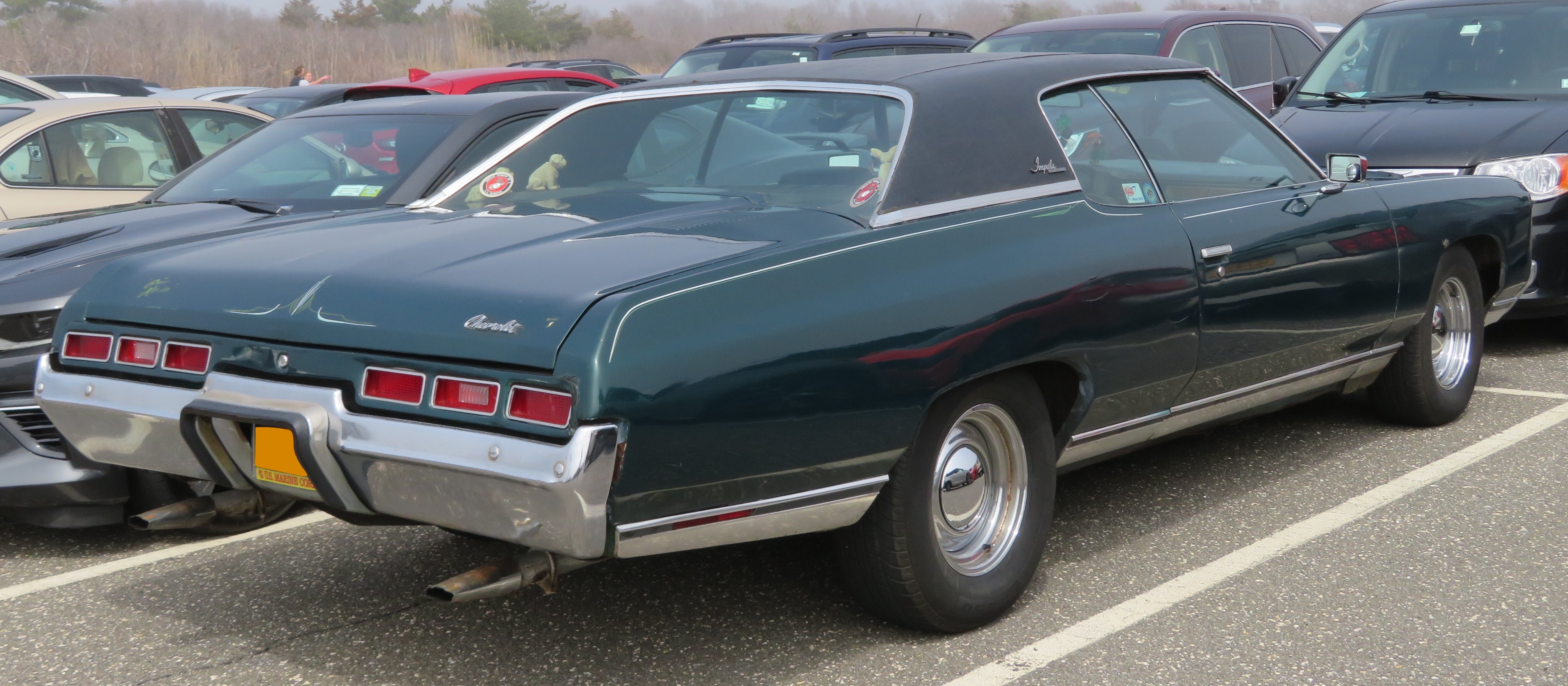 In Long Island, New York